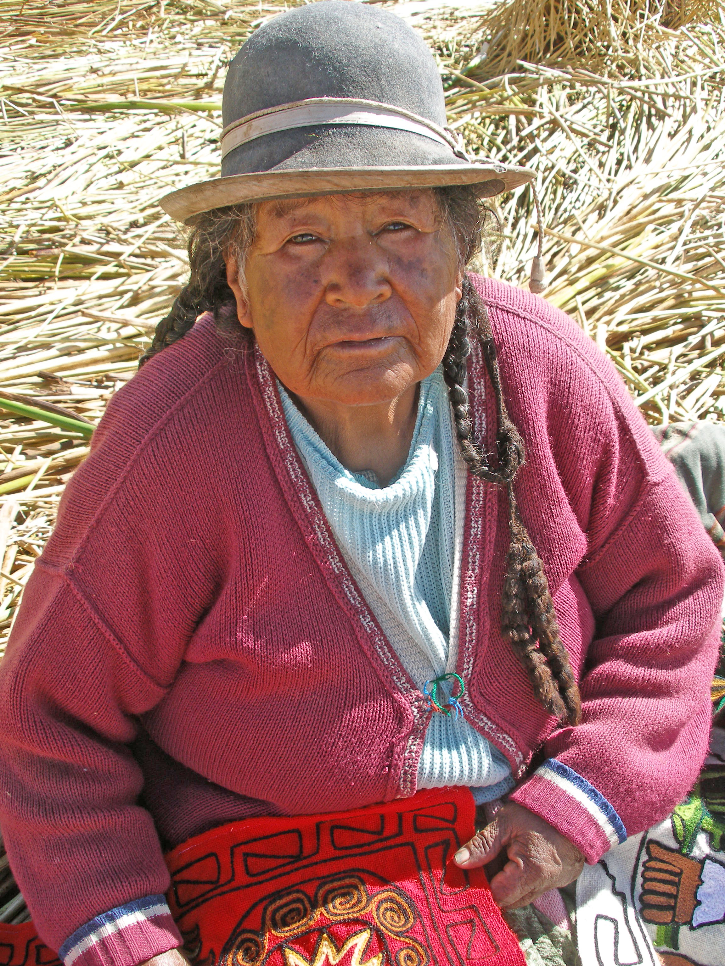 An elderly woman holding embroidery, Uros Islands, Lake Titicaca, Peru.